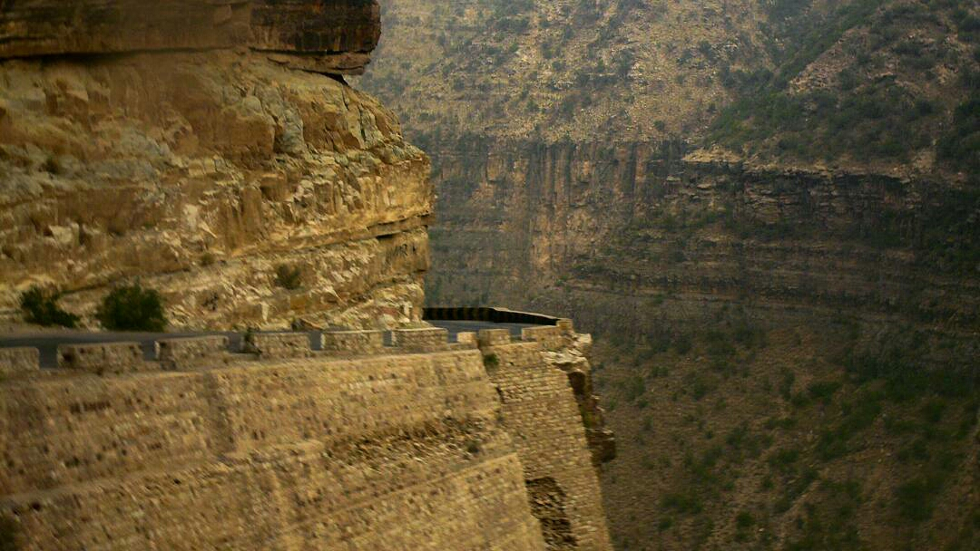 I captured this on going to Punjab, girdu pass is a pass which connects Punjab Province and Baluchistan.